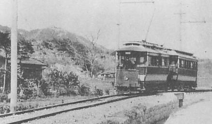 Iwakuni Electric Tramway